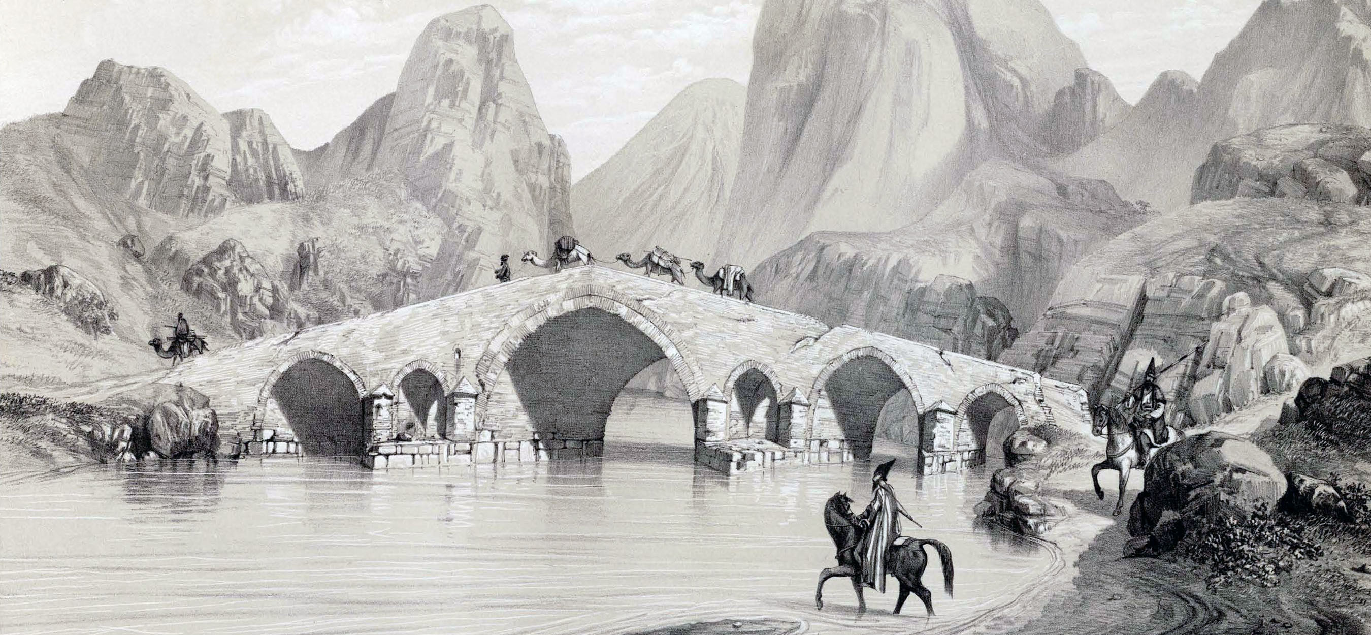 Bridge Kizil Hauzen